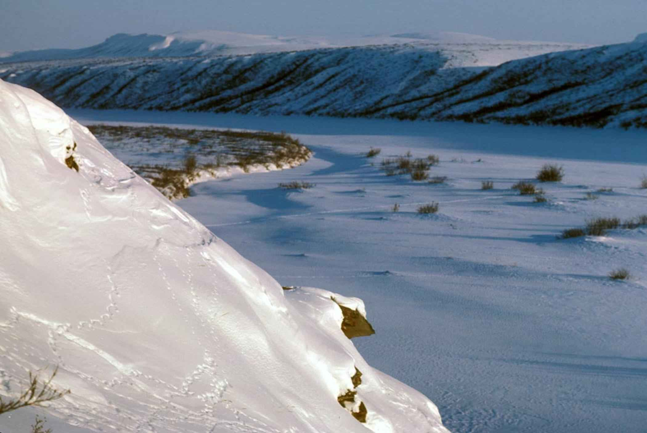 Image title: Noatak river covered with snow at winter Image from Public domain images website